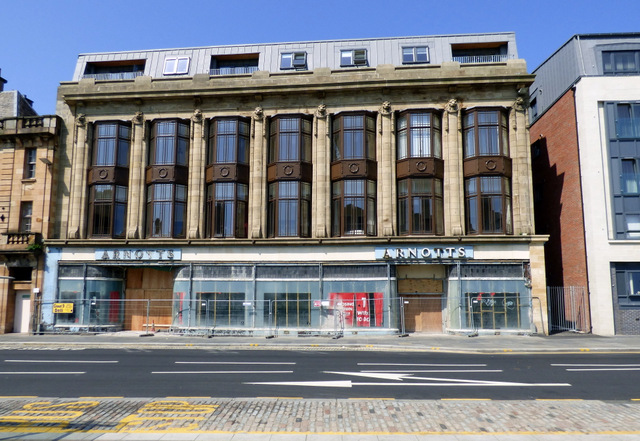 The photo shows the building in 2016, two years after the store closed. This was the last remaining Arnott's store in Scotland.